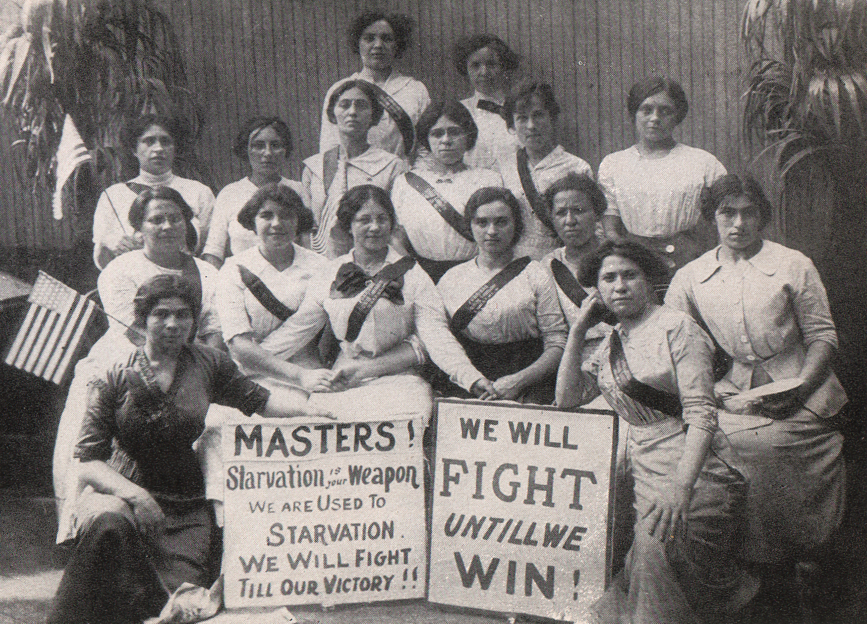 Original Description: Group of Striking Fur Girls at Picnic: Shops Reopen, but Workers Remain out. Women played a leading role in 1912 fur strike.